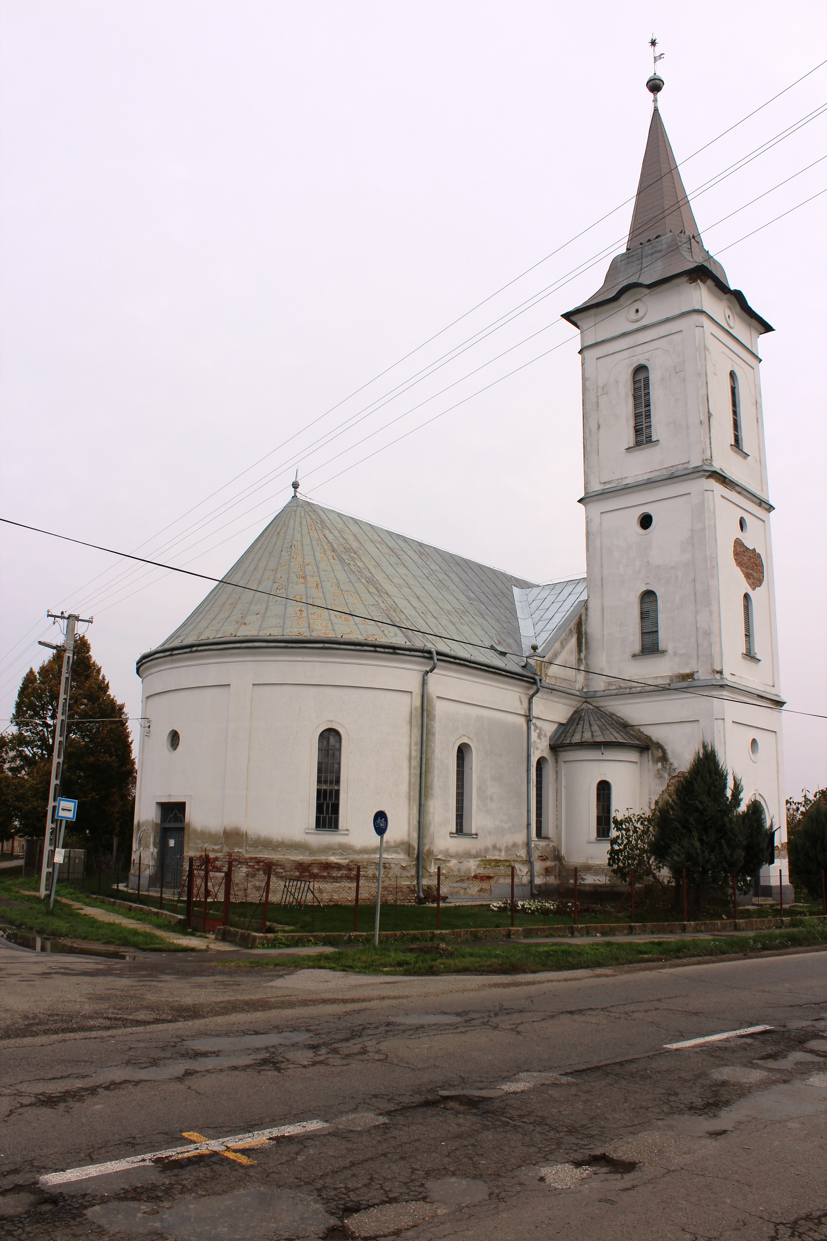 Reformed church in Ököritófülpös, Hungary This is a photo of a monument in Hungary, Identifier: 8414